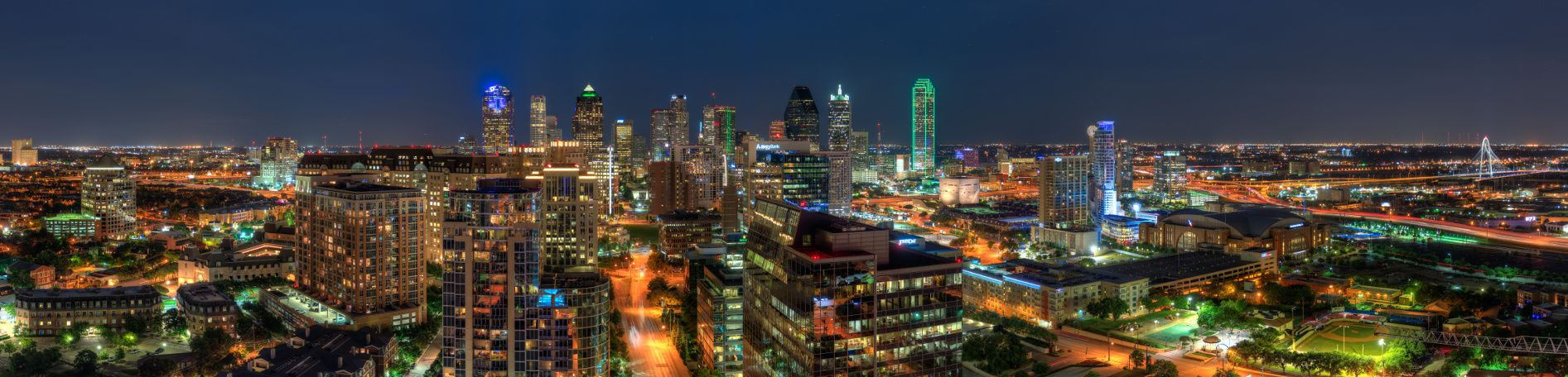 Bleu Ciel panoramic nightview of Downtown Dallas